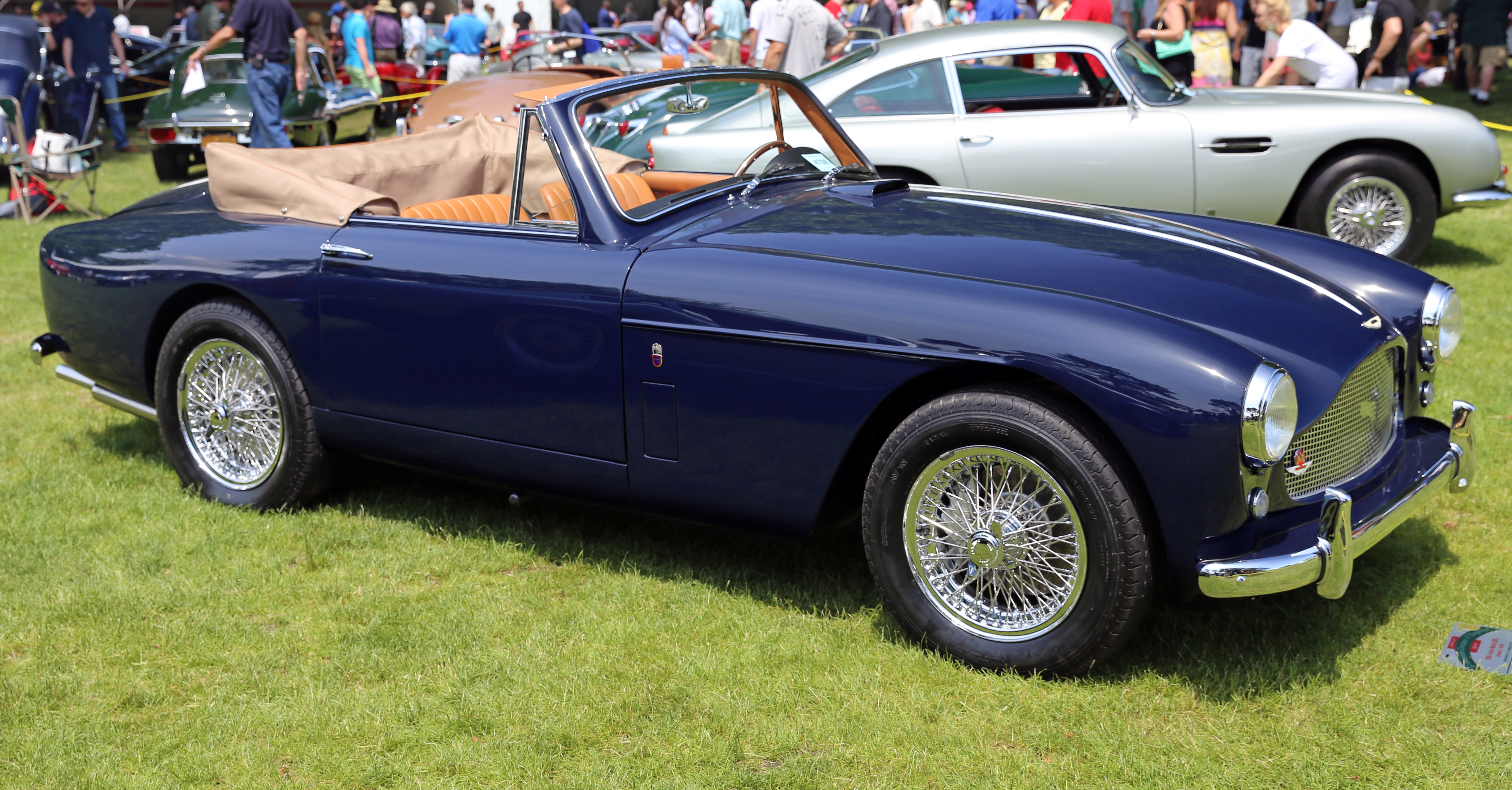 1959 Aston Martin DB 2/4 Mark III Drophead Coupé at the 2013 Greenwich Concours d'Elegance. 84 of these were built.